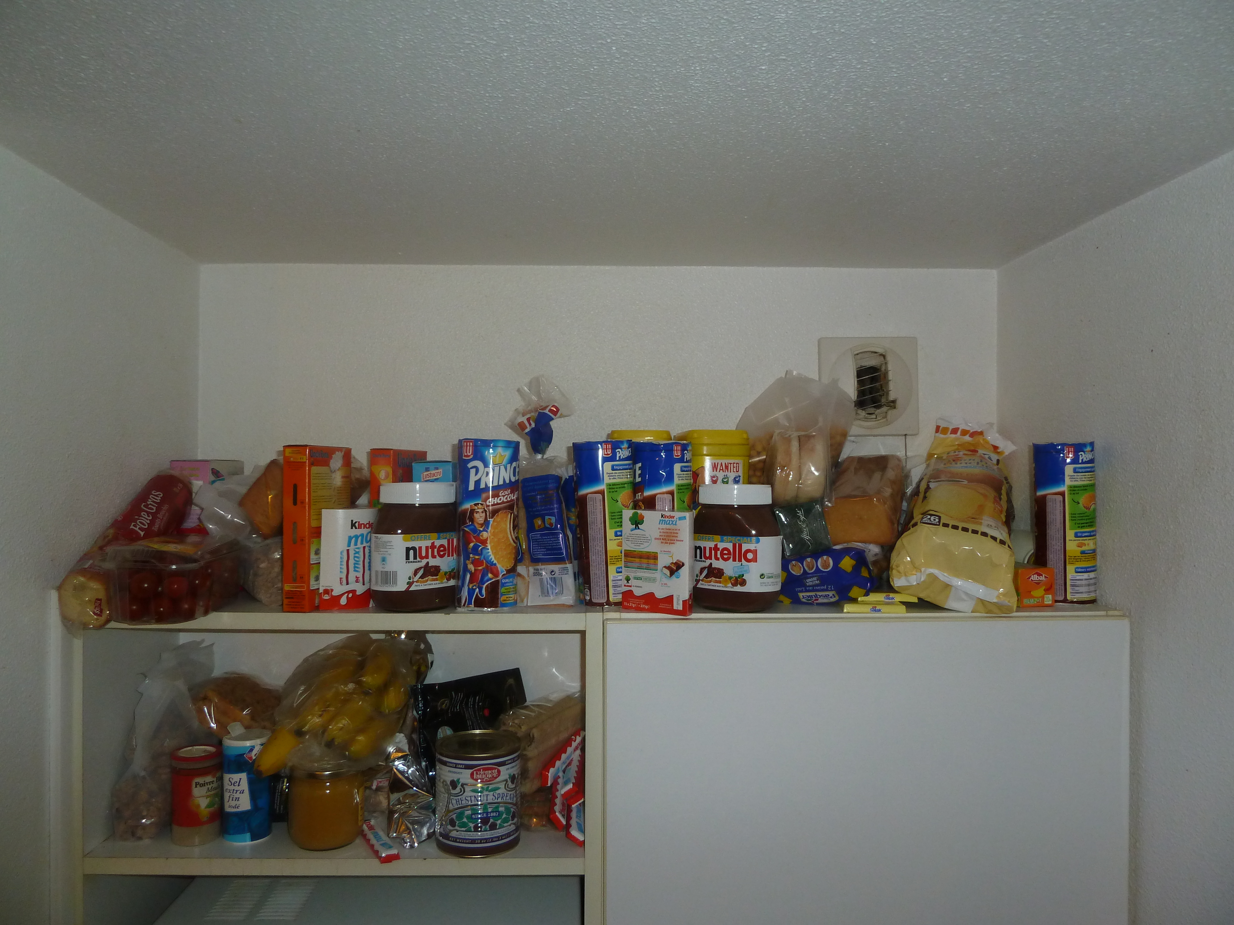 Food over a kitchen - 20111001